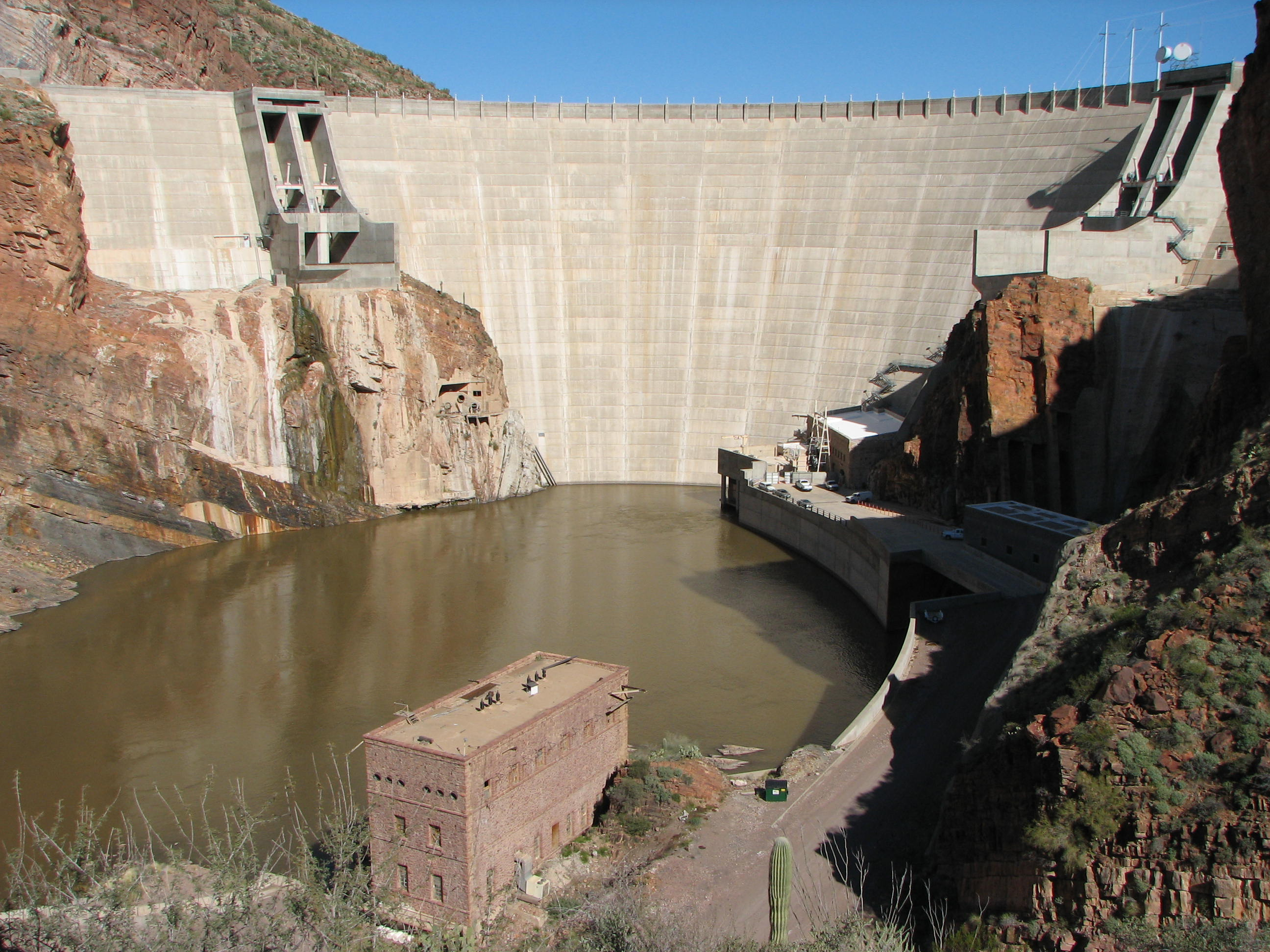 Theodore Roosevelt Dam, Arizona, USA